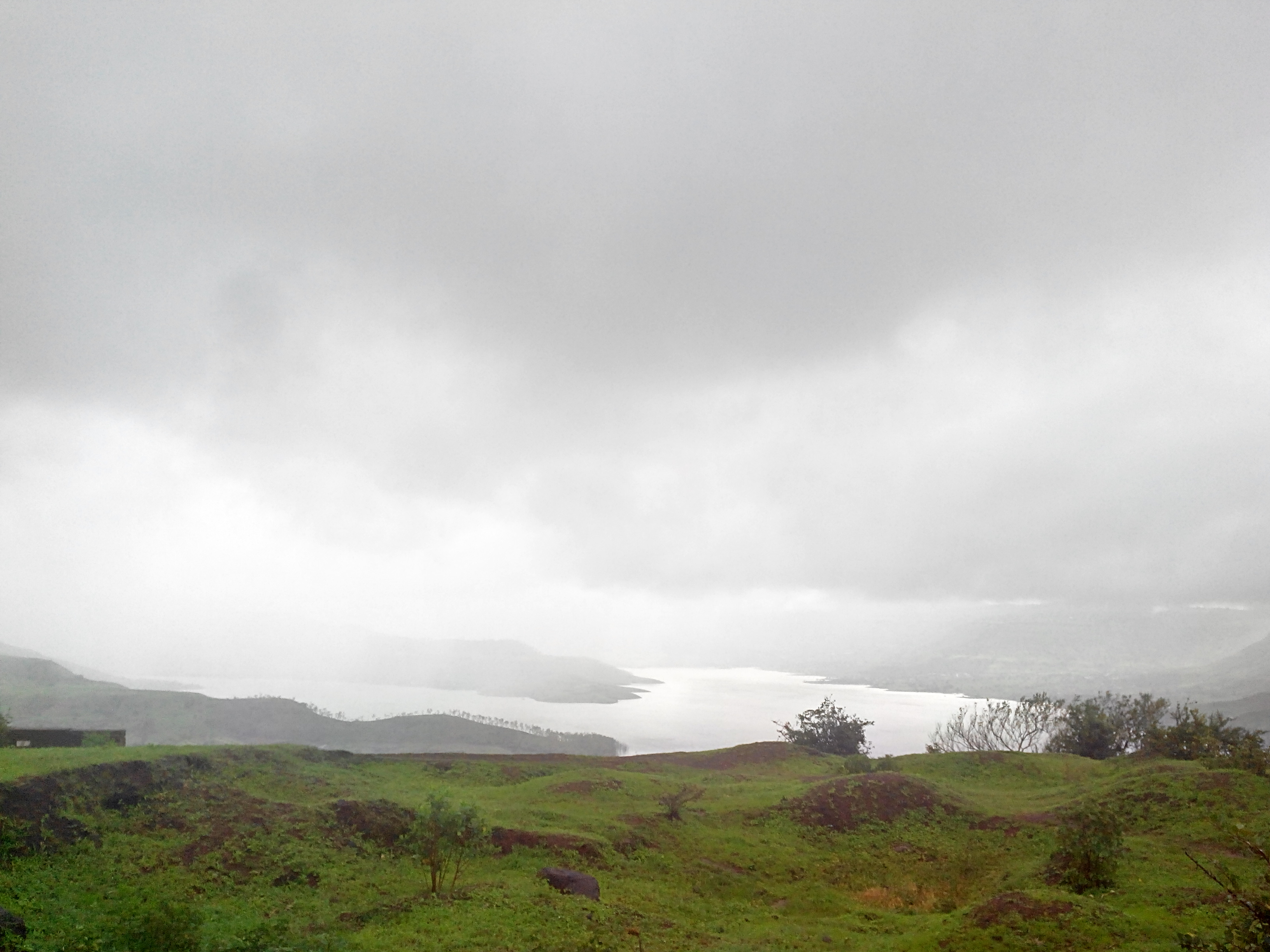 Near Kas , July 2014